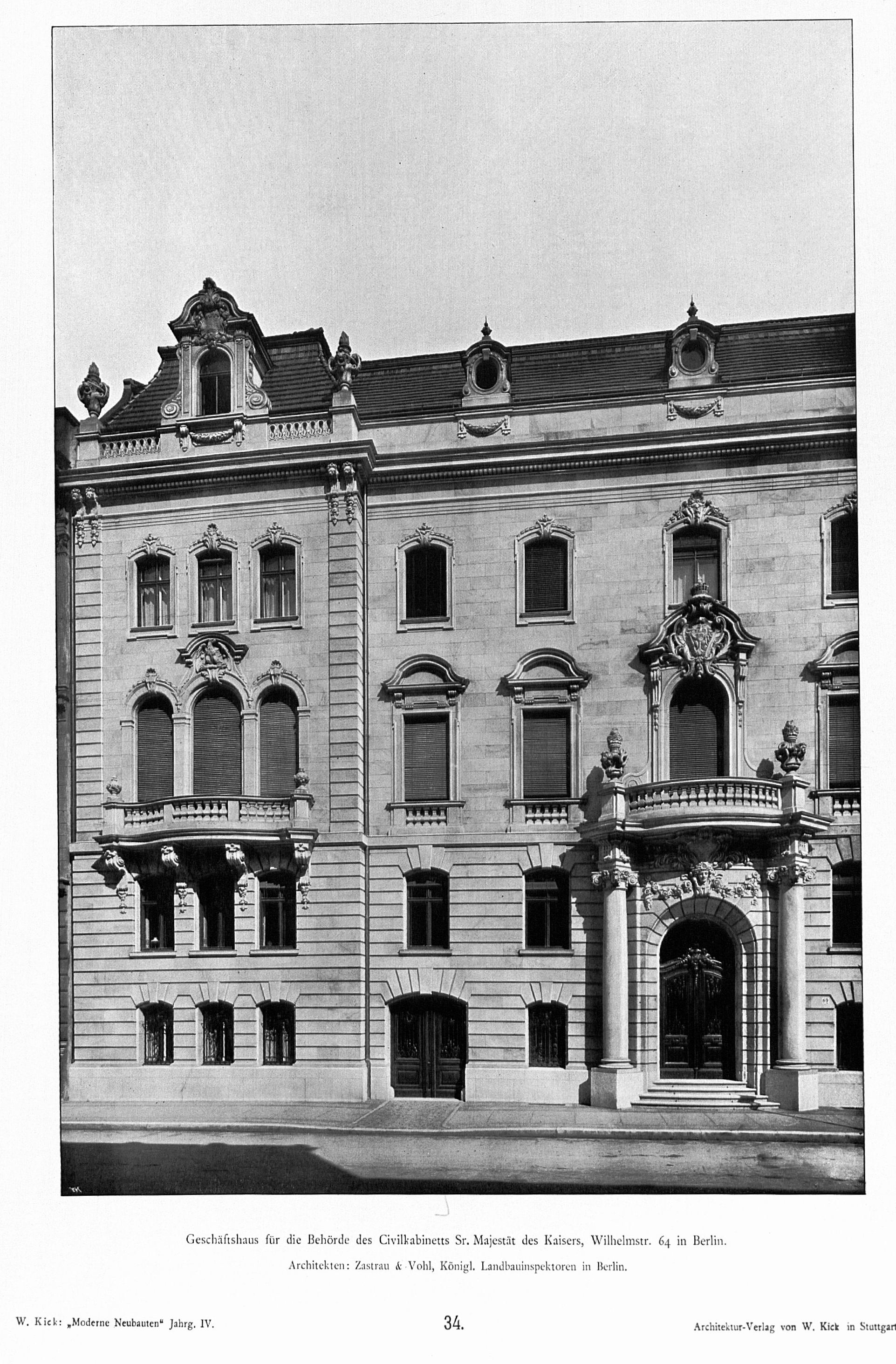 Kaiserl._Civilkabinett,_Wilhelmstr._64_Berlin_Architekten_Zastrau_&_Vohl_Königl._Landbauinspektoren_Berlin.JPG